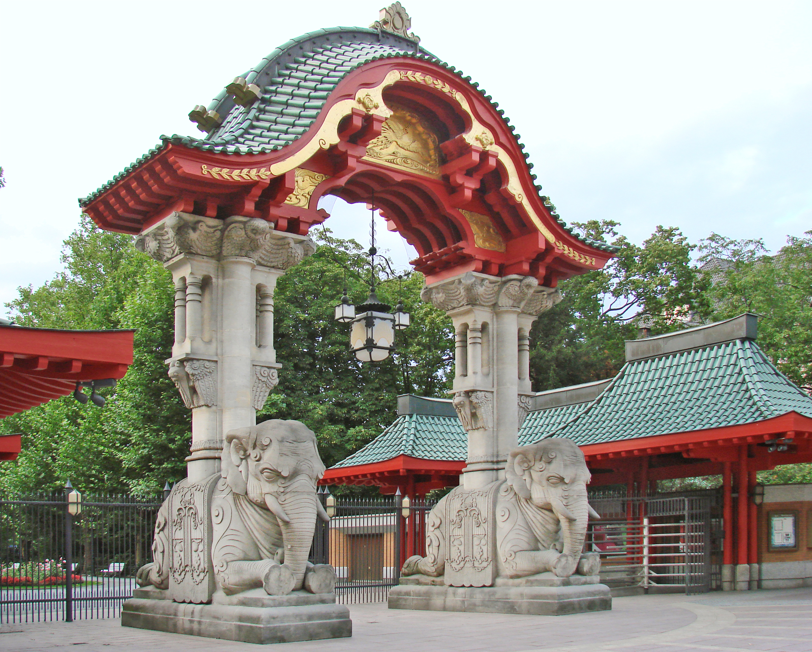 Elephant Gate of Berlin Zoo (entrance near Memorial Church). Francais: La porte des éléphants, Berlin Zoo. Cette porte qui marque l'entrée du zoo a été construite en 1899. Le zoo de Berlin a été créé à la fin du 18ème siècle dans l'île aux Paons, puis transféré en 1844 dans un parc près du centre-ville aménagé par Peter Joseph Lenné. Il est toujours dans cet espace situé aujourd'hui au coeur de Berlin. Les premiers pavillons du zoo ont été conçus dans le style des pays d'où provenaient les animaux qui y étaient hébergés. Le zoo et l'aquarium de Berlin ont reçu près de 3.000.000 de visiteurs en 2010. Le zoo est célèbre dans le monde et le plus visité en Europe. article de Wikipedia site officiel du zoo de Berlin